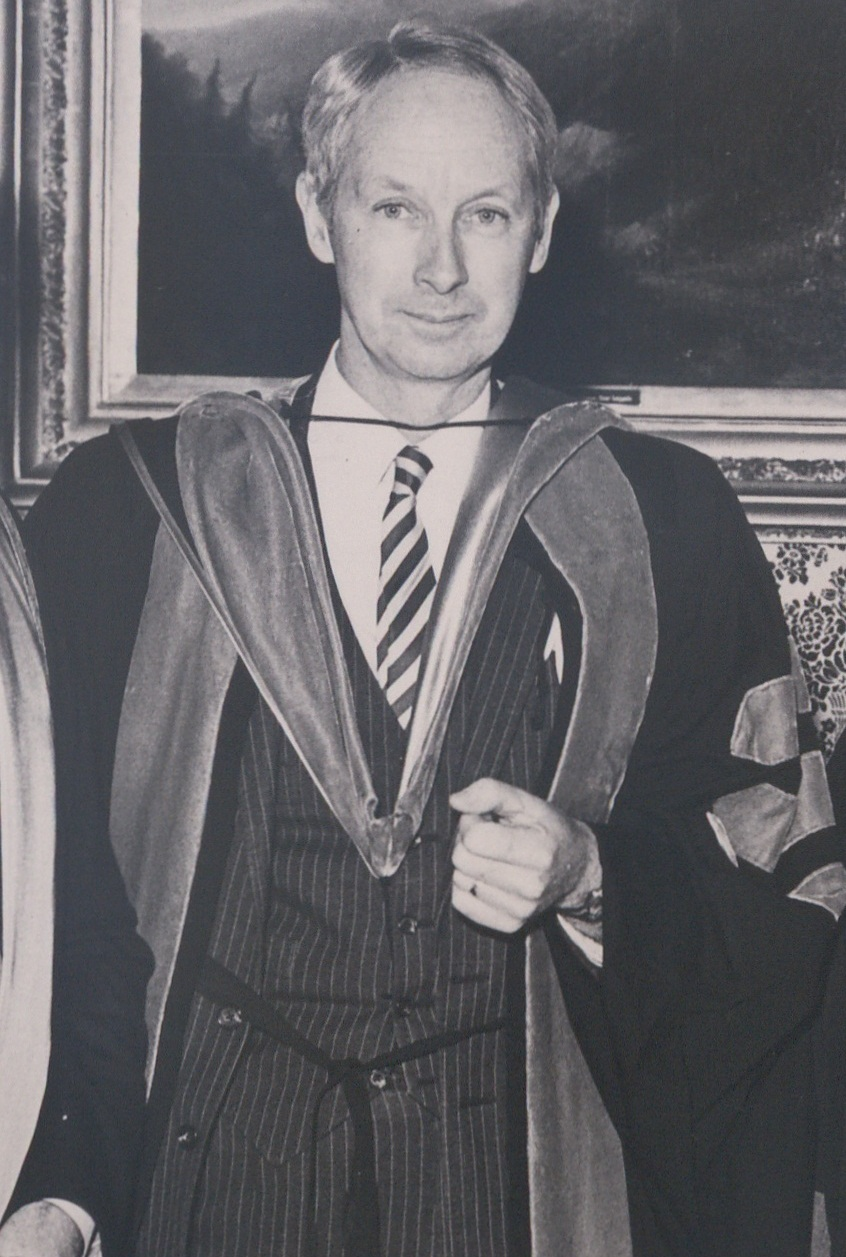 Dr. Edward M. Walsh UL40_Box9_Folder18_002